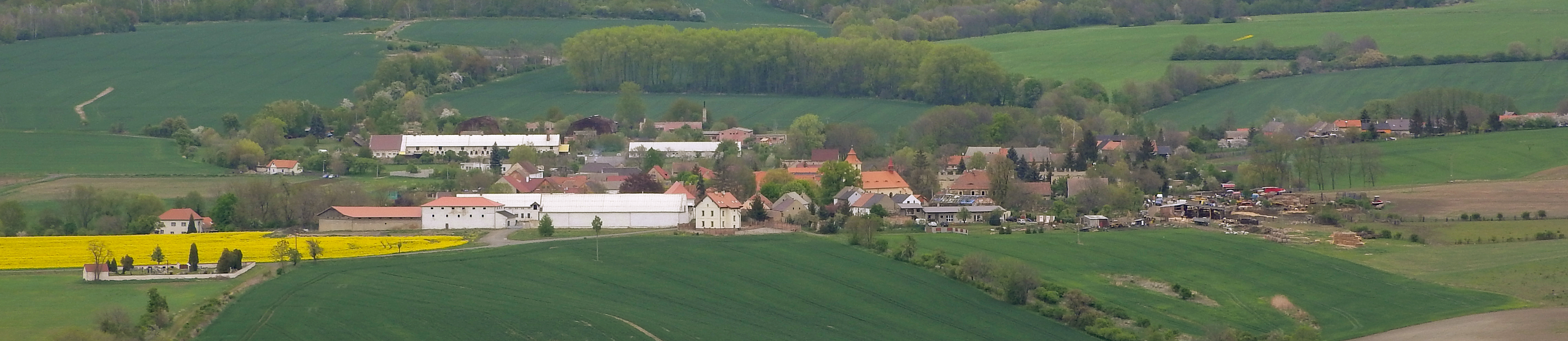 Village Měrunice (Teplice district), view from Číčov hill, spring 2020.